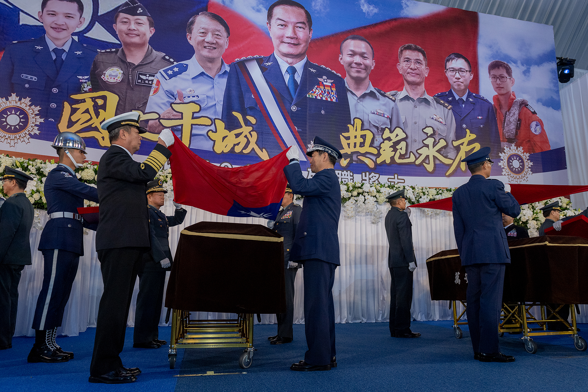 Official Photo by Makoto Lin / Office of the President